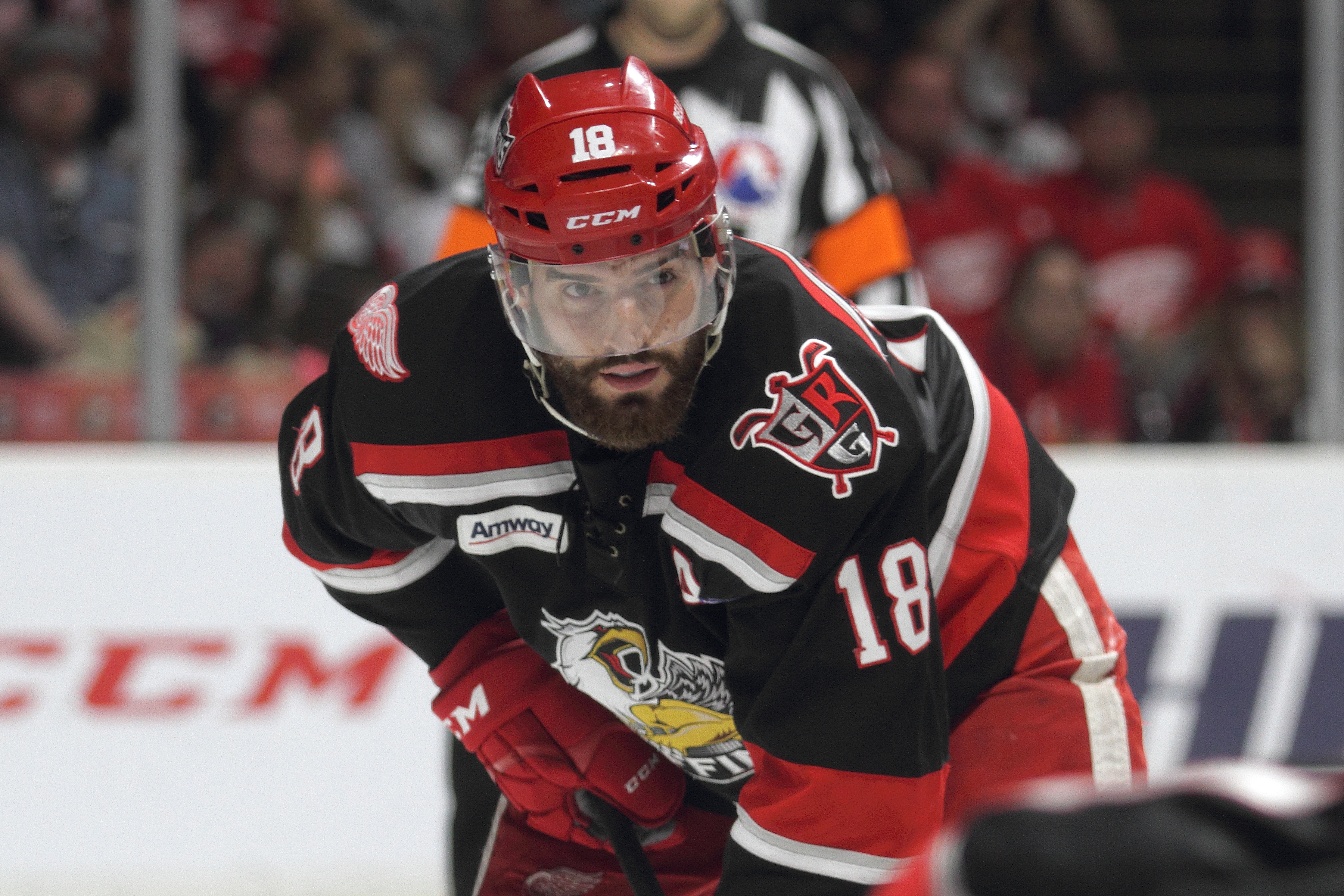 Photo: Mark Newman